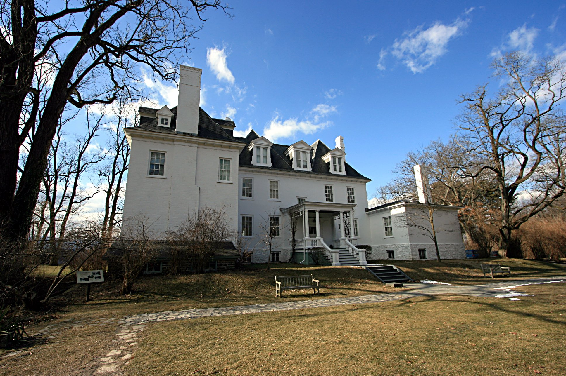 Photograph of the garden-side (backside) of Clermont Manor, Columbia County, New York, USA